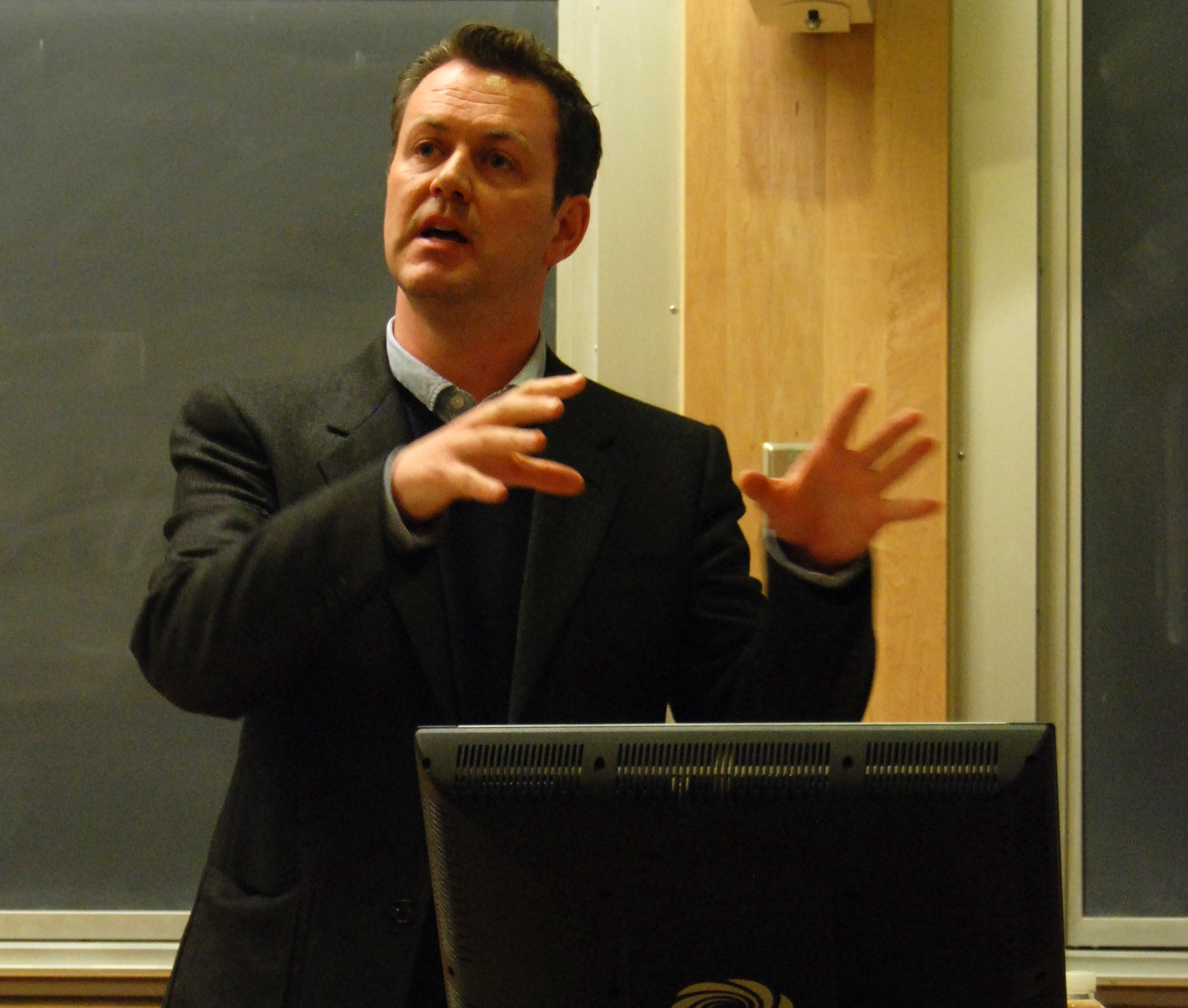 At Dartmouth College, USA, Februrary 2013